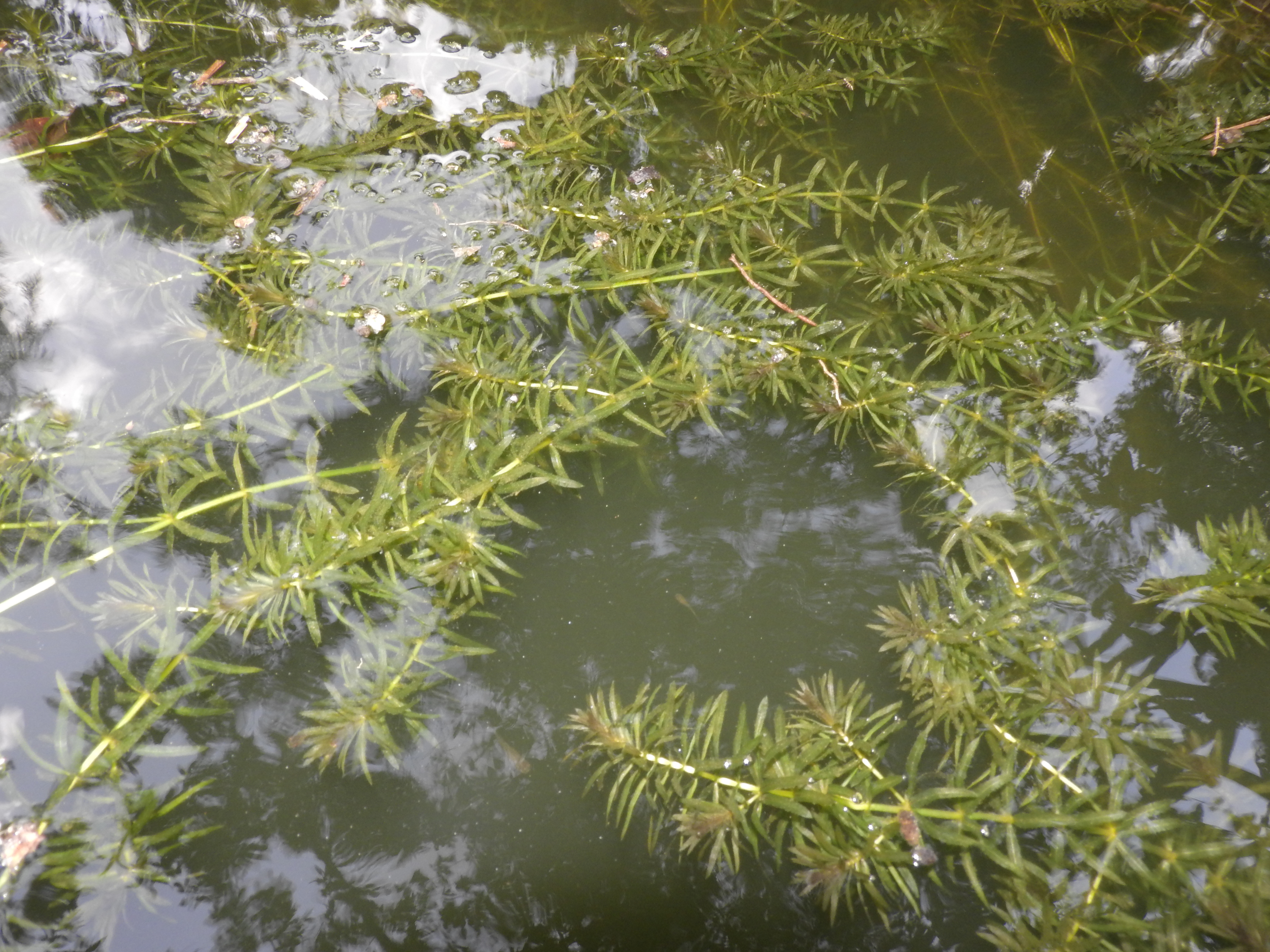 Hydrocharitaceae-aquatic herb.